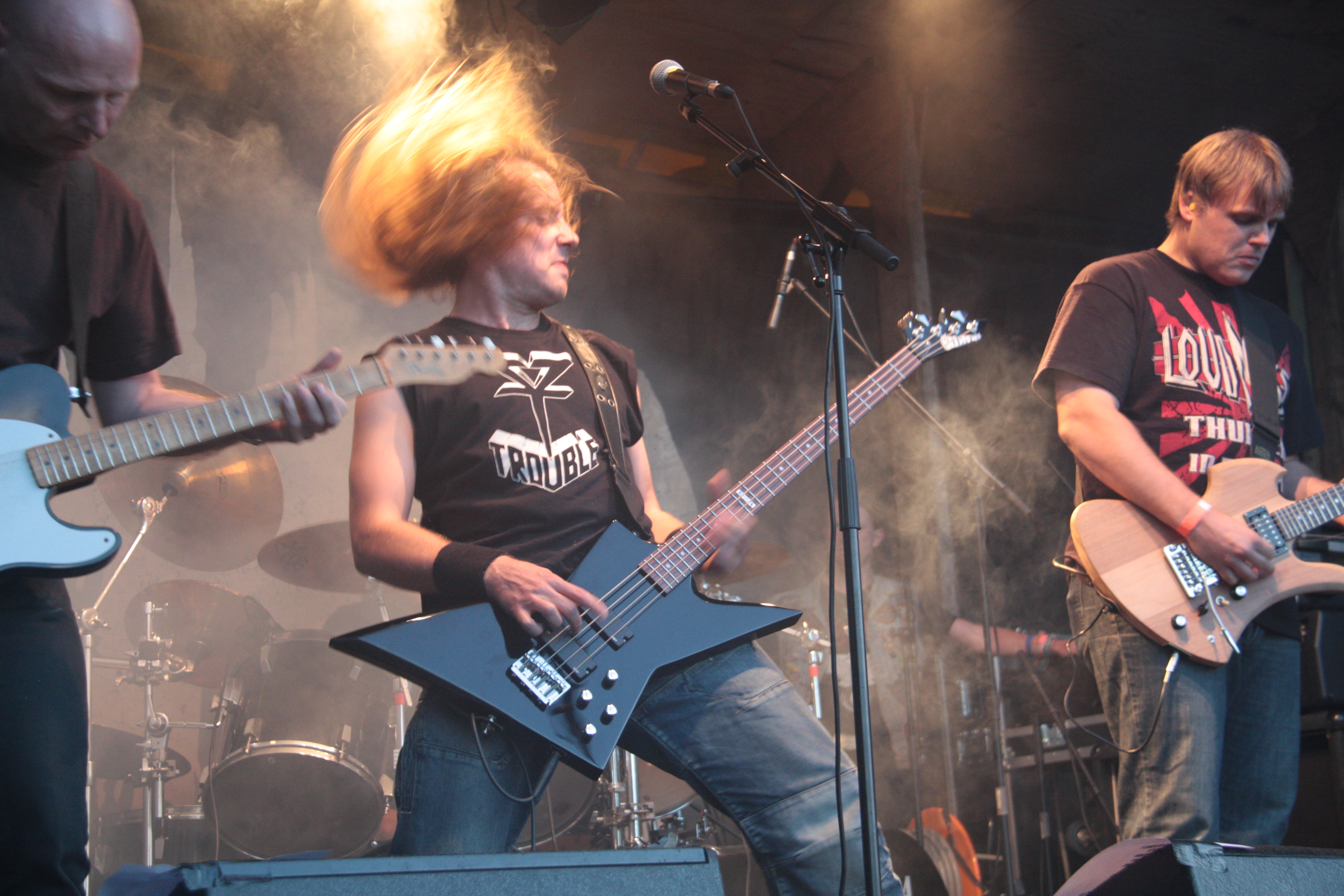 Dead Head on Occultfest 2010, Saturday september 4th